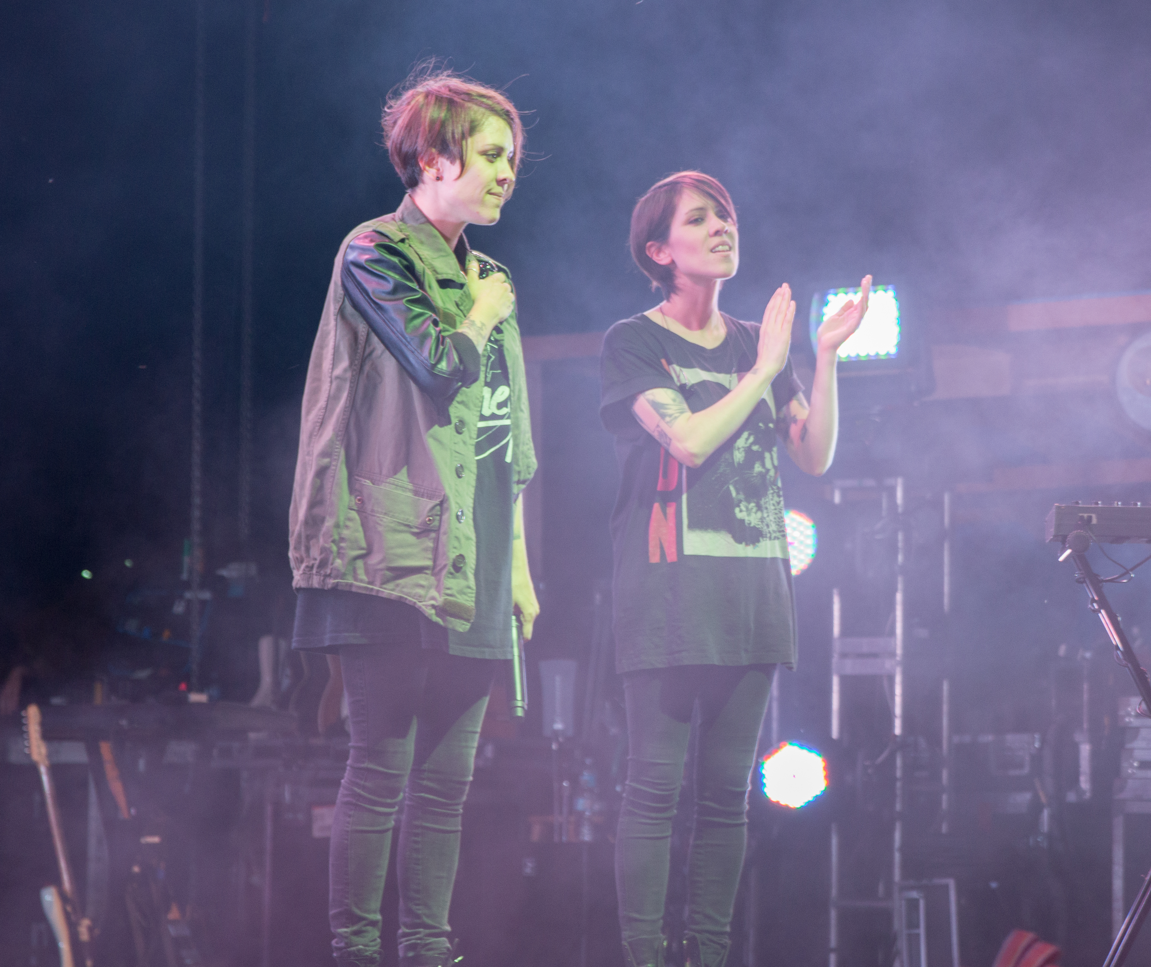 Canadian indie rock duo "Tegan and Sara", post concert, at the Hillside Festival in Guelph, ON. Tegan is on the left.